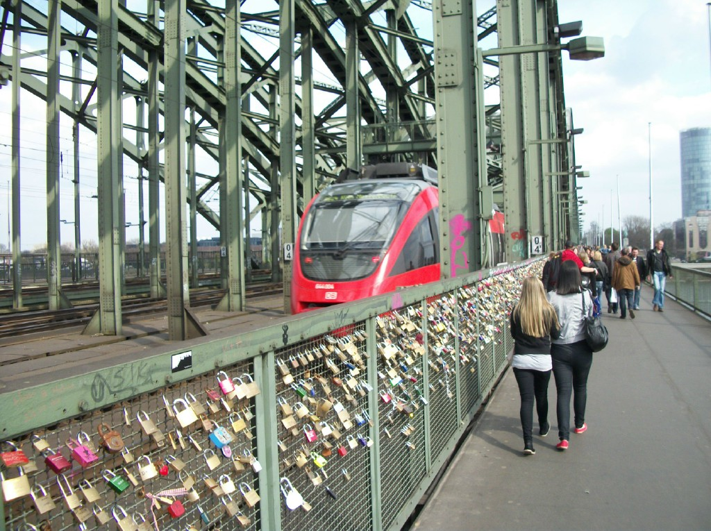 Locks at Cologne Bridge